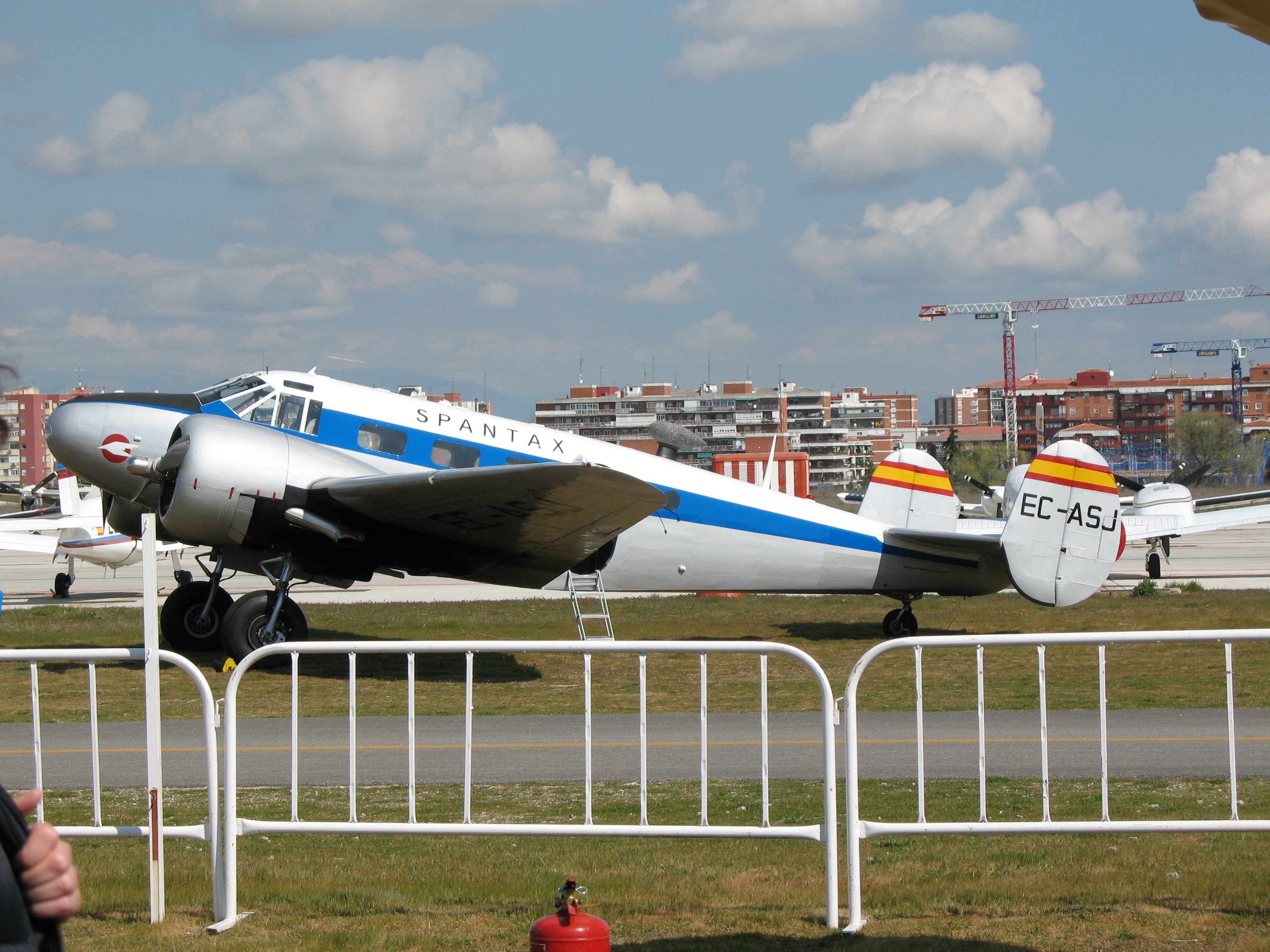 Beech 18 Spantax aircraft (EC-ASJ) at LECU (Cuatro Vientos, Madrid).